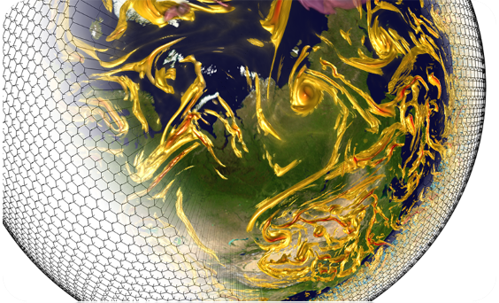 The combination of grid illustration, volume rendering of vorticity (yellow tubes) and temperature (north cap). Note that for the purpose of clear illustration in the right image, the grid is coarser than the actual one used to generate the vorticity and temperature